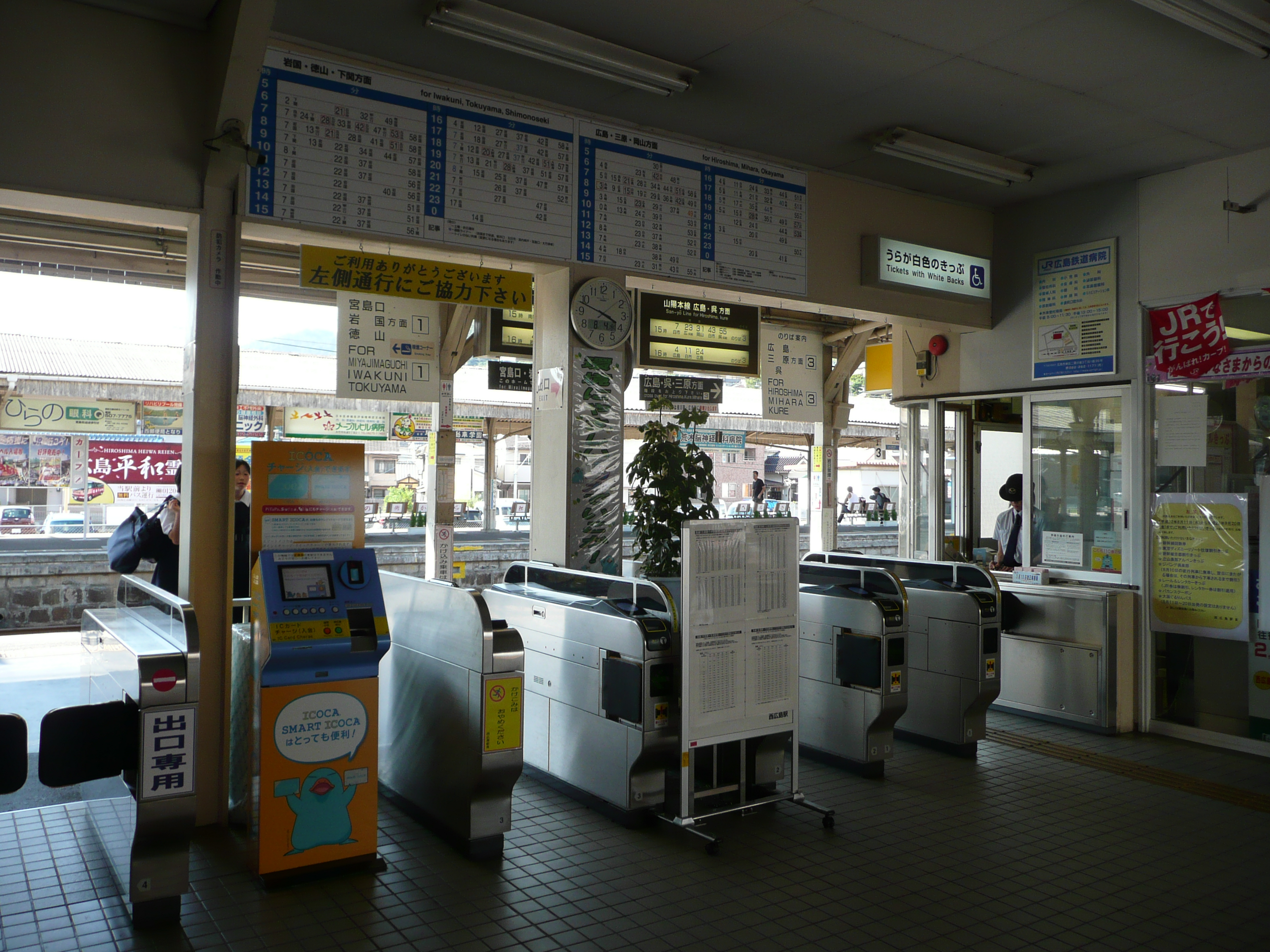 Nishi-Hiroshima Station ticket gates